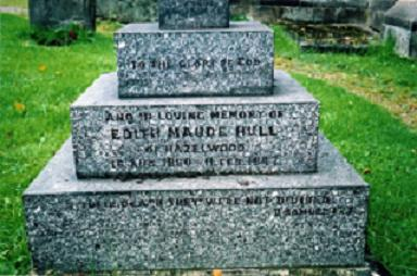 Edith Maude Hull - the grave of the celebrated author at St. John's Church in Hazelwood, Derbyshire